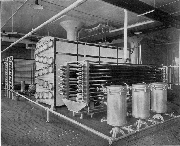 Print, Milk pasteurizing plant, Ink on paper, 14 x 18 cm